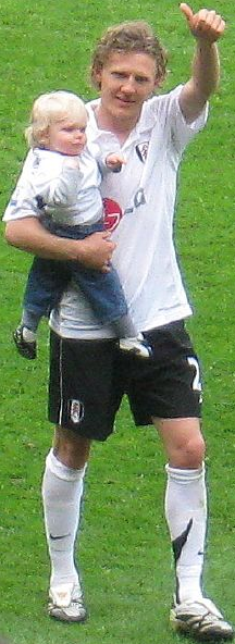 Jimmy Bullard. Image cropped from original at flickr.